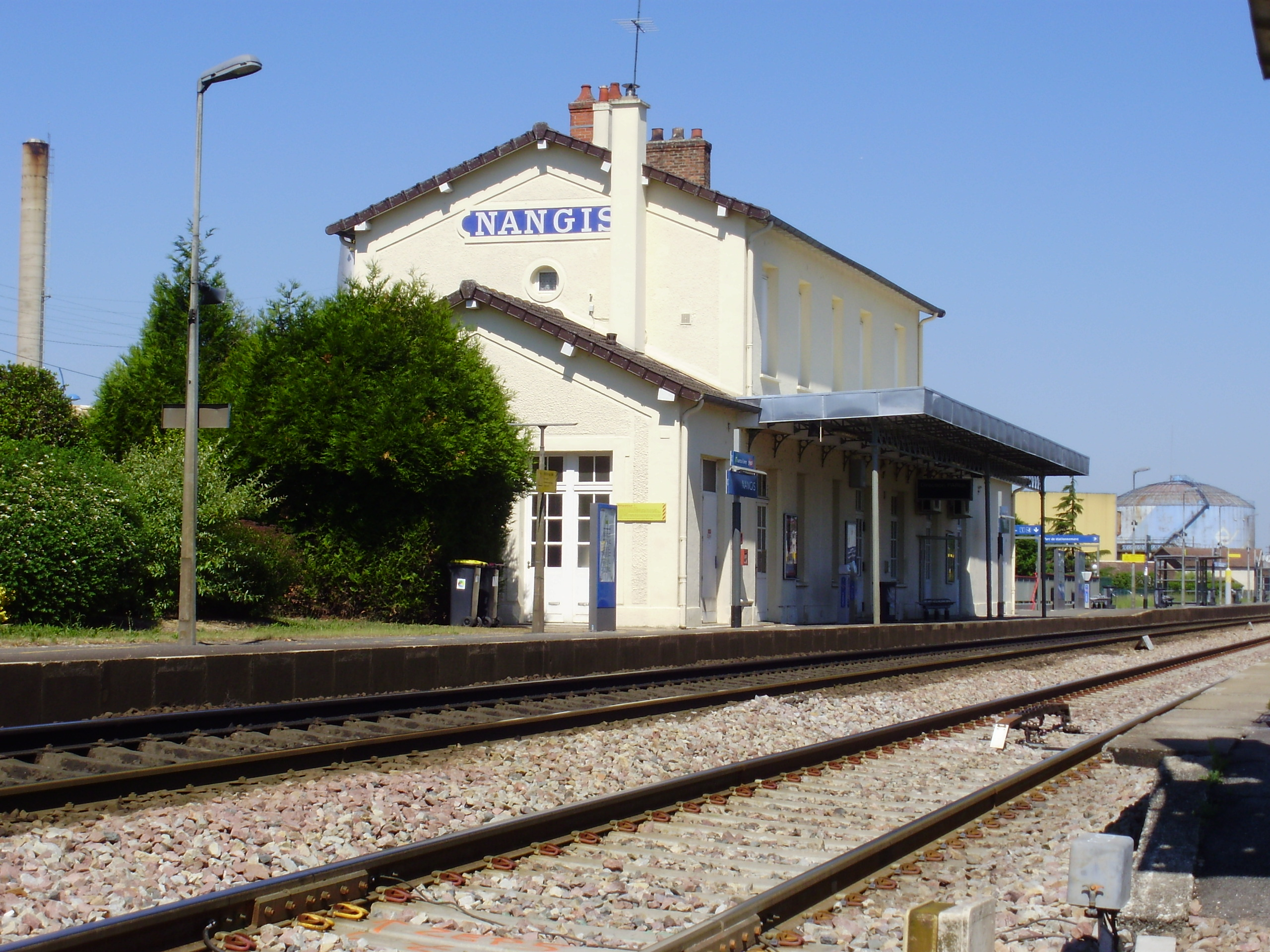 Nangis station, Seine-et-Marne, France